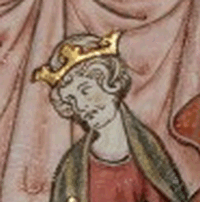 James II of Aragon